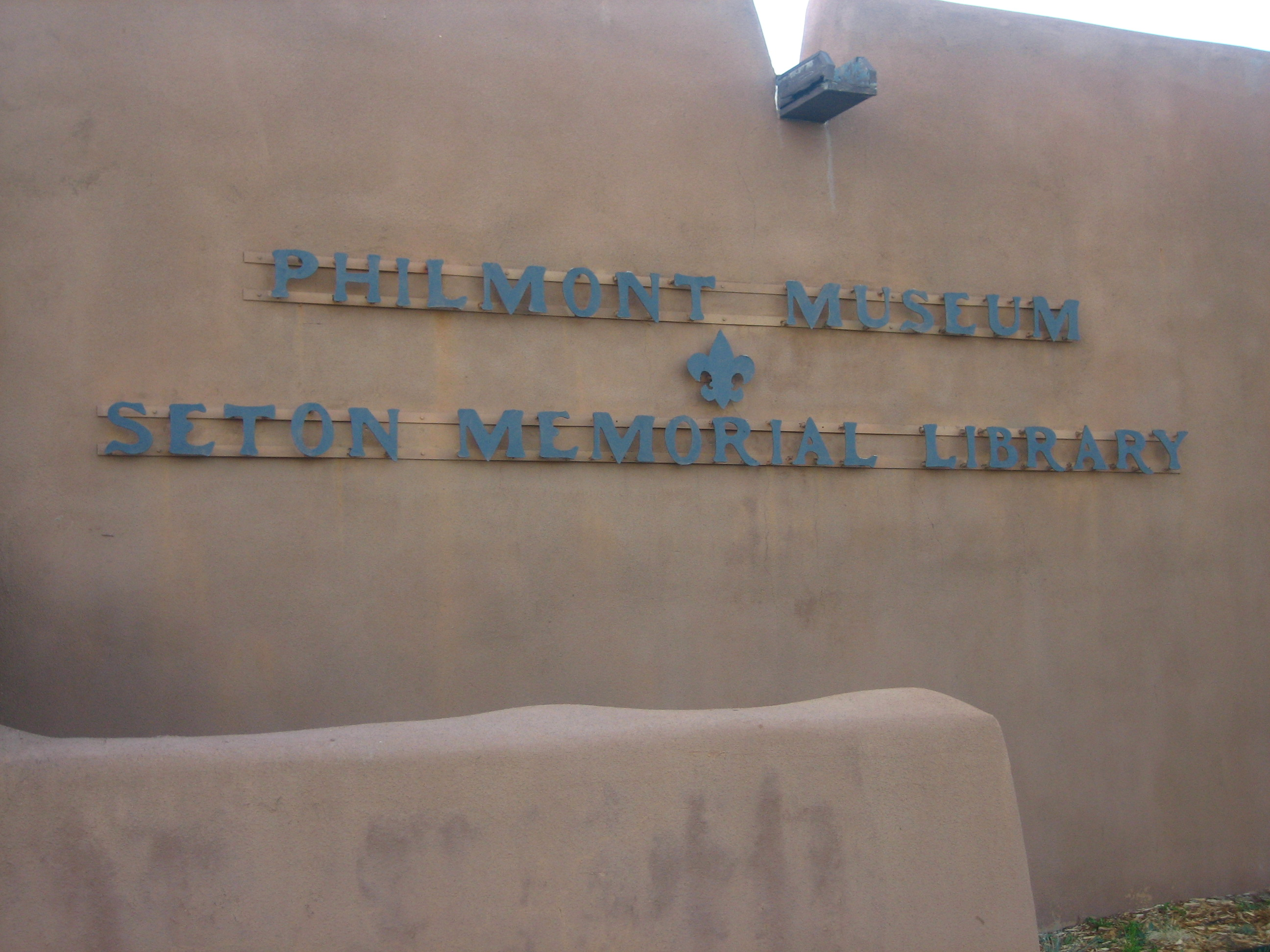 Philmont Museum and Seton Library